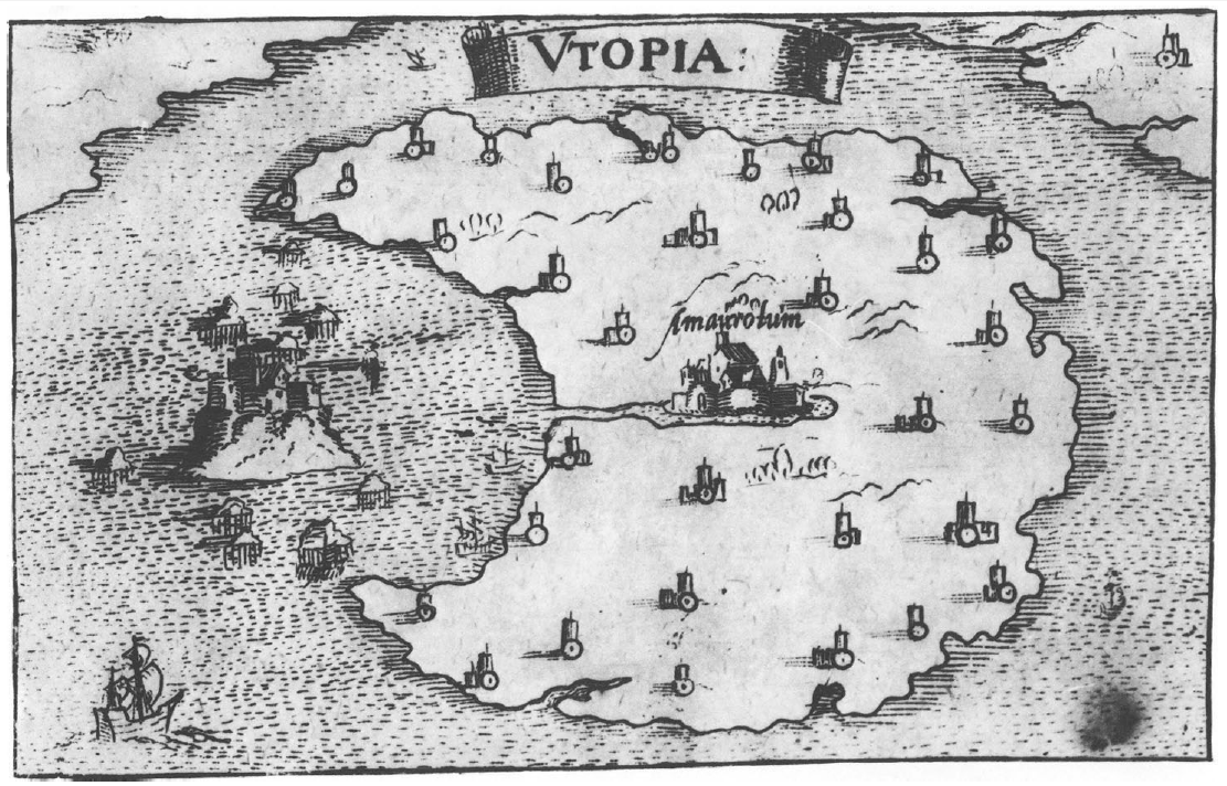 This is a map designed by an Unknown author in 1612 (Generally named : "Utopia, Leipzig 1612")